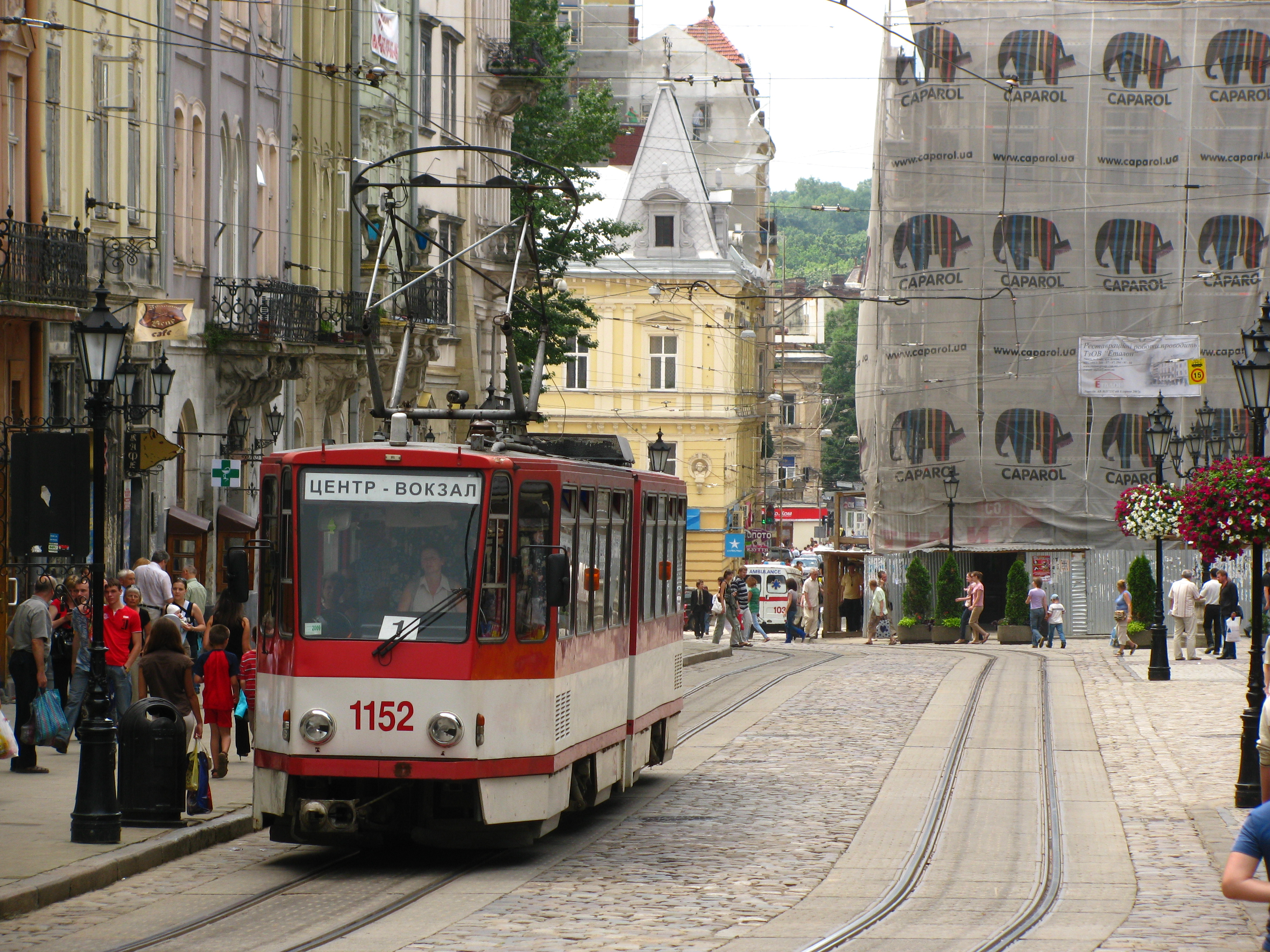 Tatra KT4SU in Lviv, Ukraine